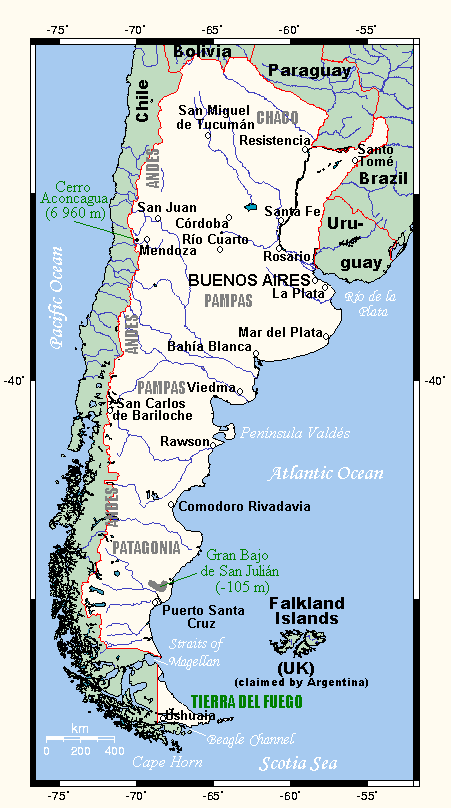 Map of Argentina showing main towns, highest and lowest points, and other relevant information.